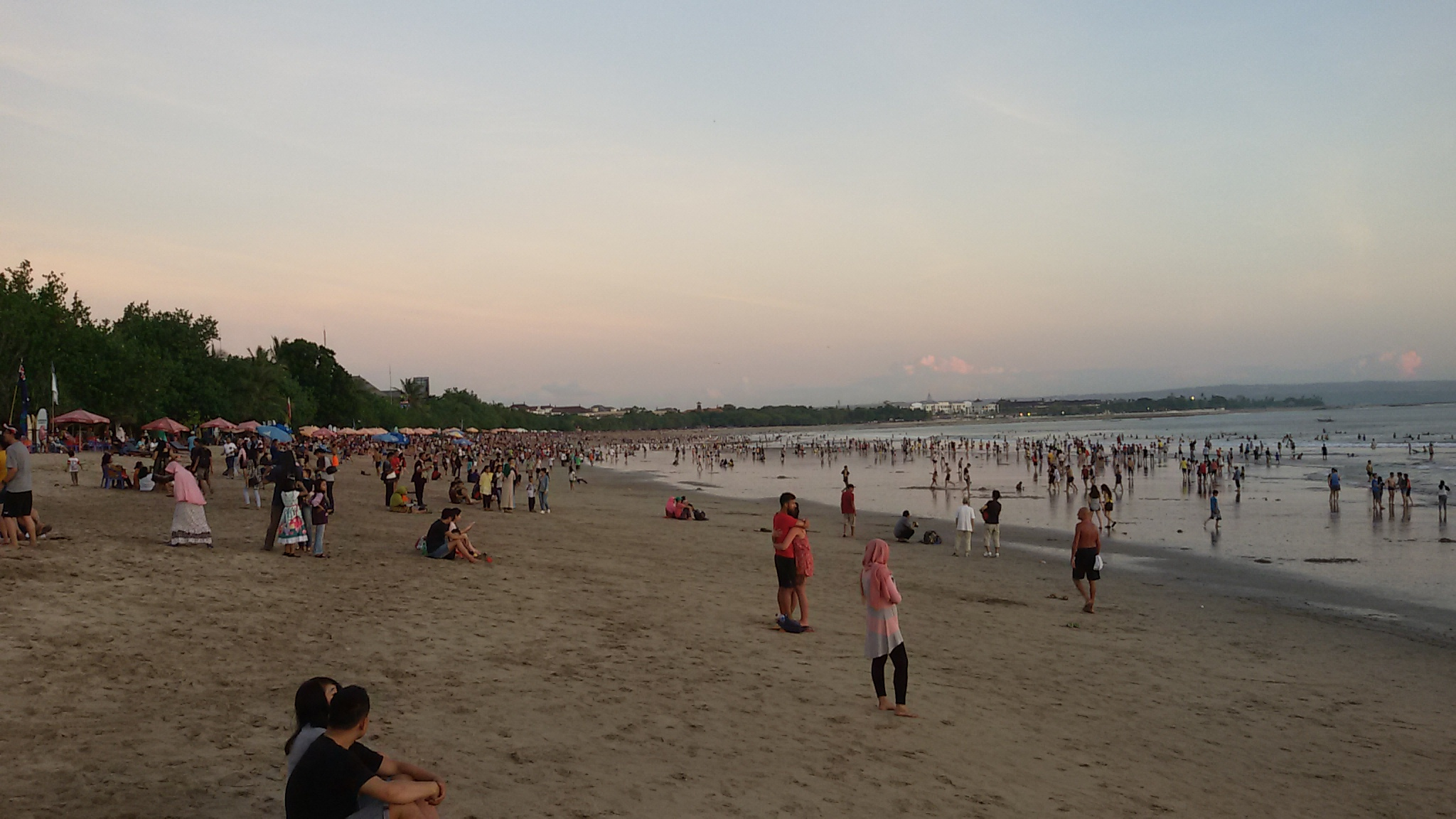 Sunset at Kuta Beach, July 2016